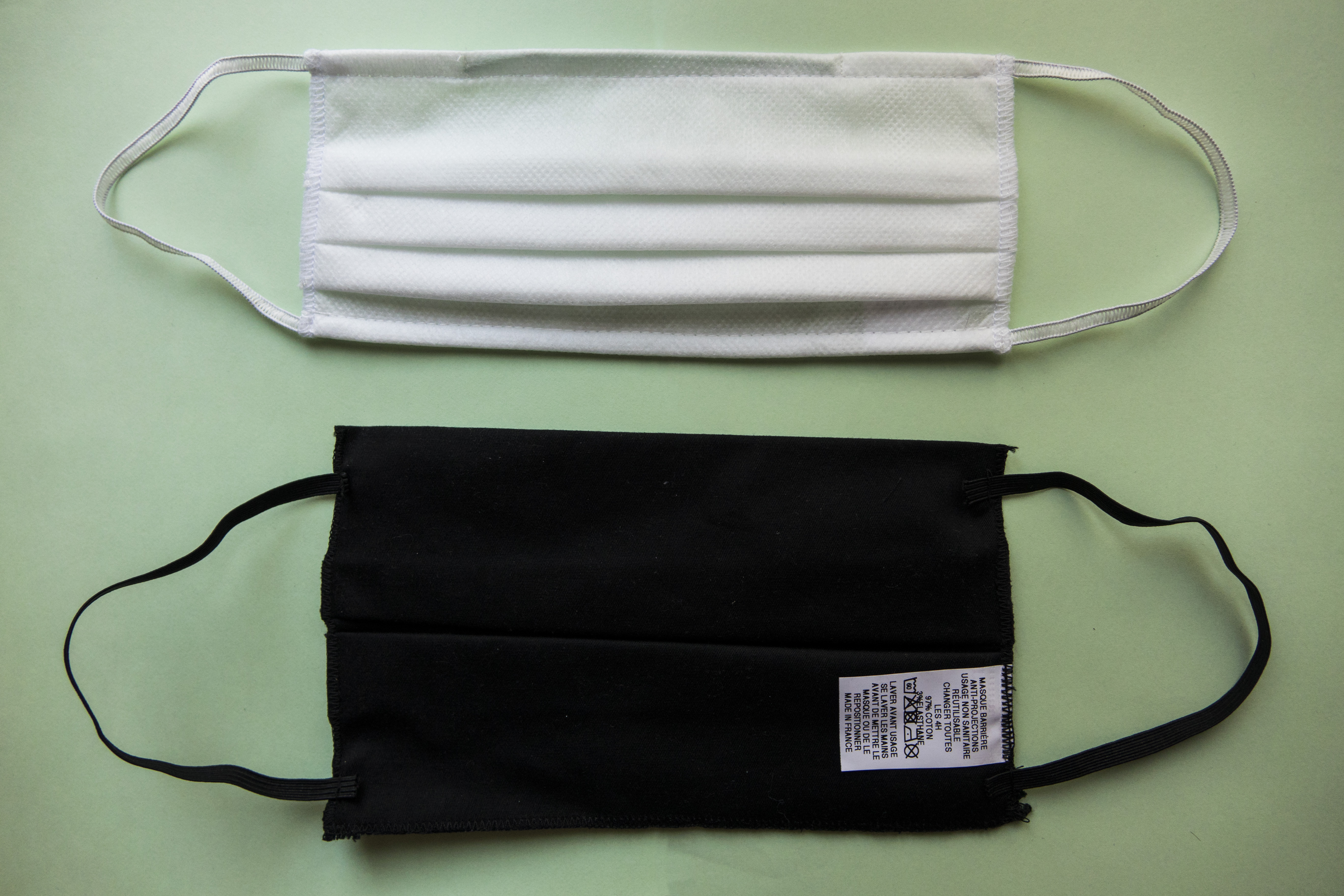 Two French cloth face masks, known as masques grand public in France: one in polypropylene (top) and one in cotton (bottom), during the COVID-19 pandemic (May 2020)